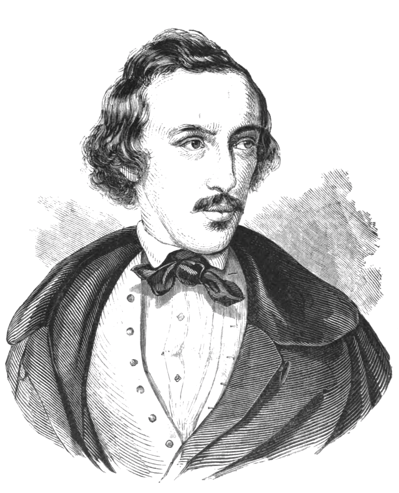 Josef Hellmesberger sen. (1828-1893), Austrian composer and musician